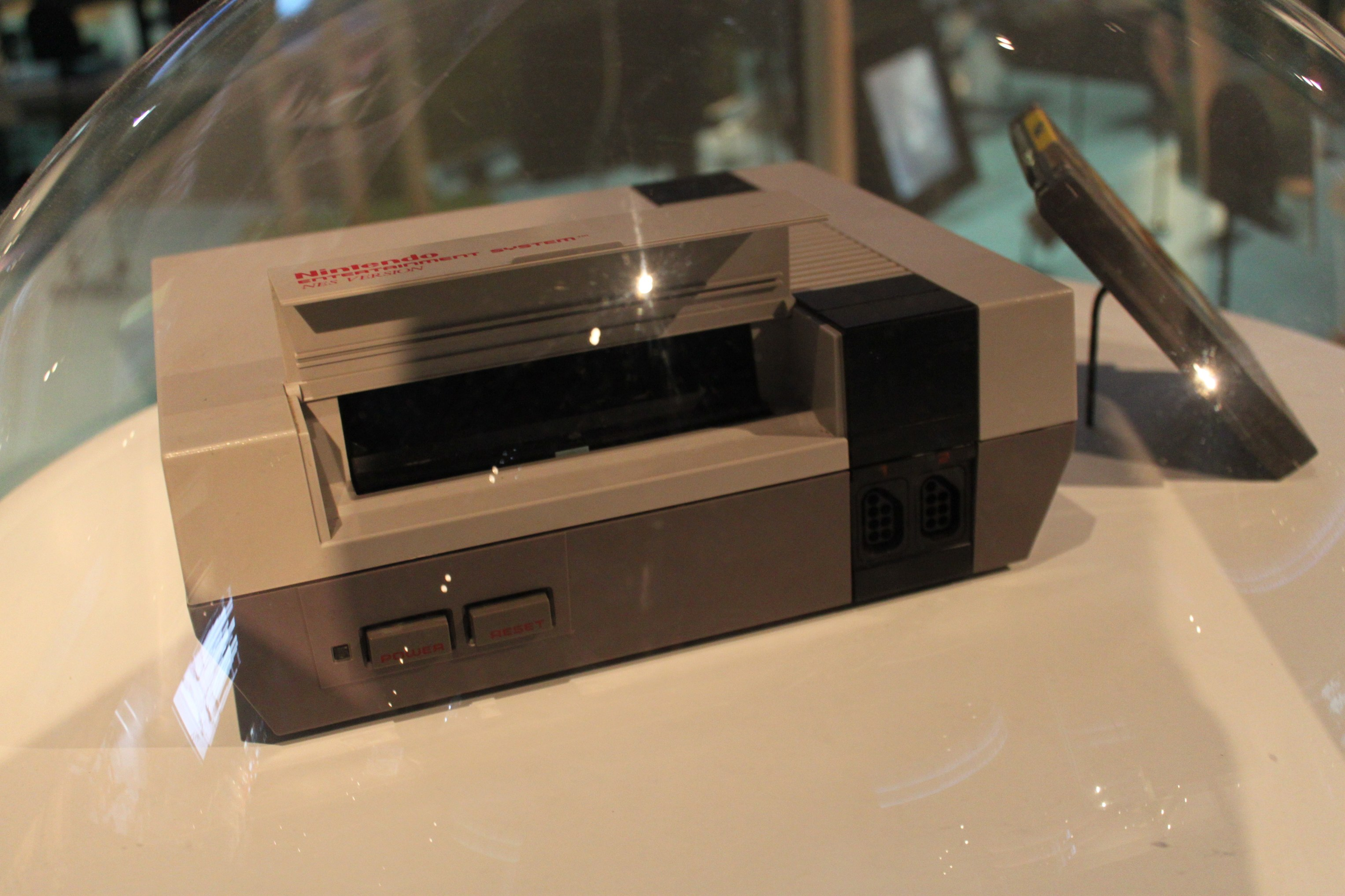 Australian Centre for the Moving Image, Melbourne, Australia.